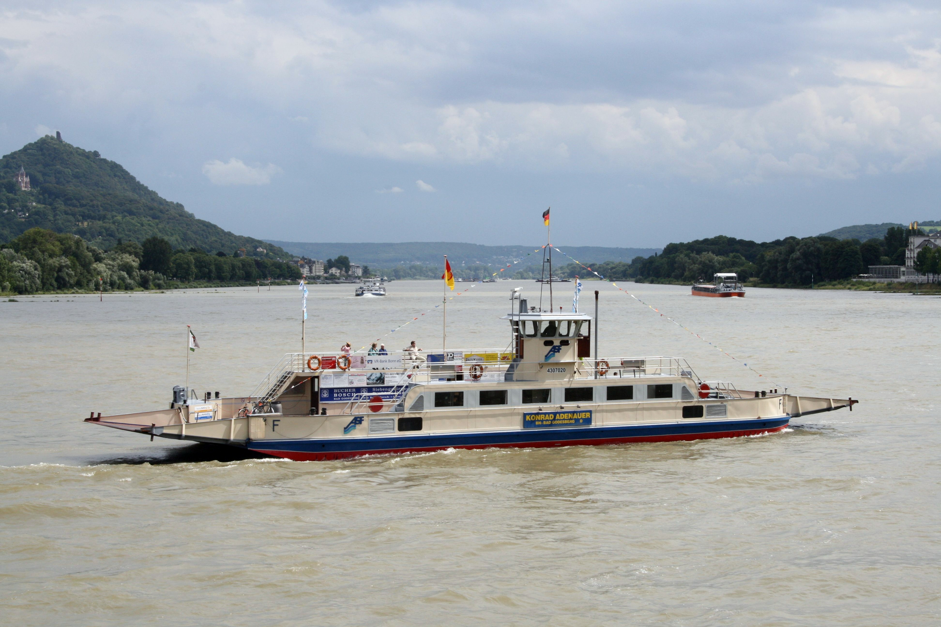 Germany, near Bonn: Rhine ferry (car ferry) Bad Godesberg–Niederdollendorf.